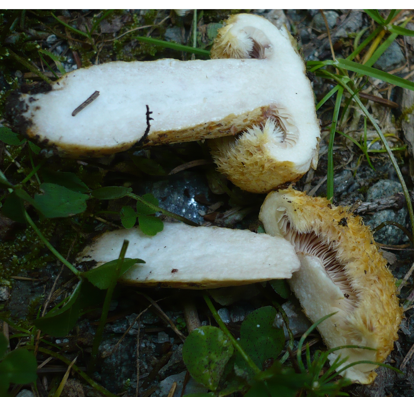 A bisected specimen of the mushroom Lactarius repraesentaneus Britzelm. Specimen collected in Feistritzer Schwaig, Mariensee, Bezirk Neunkirchen, Lower Austria, Austria. Original photo cropped by uploader.